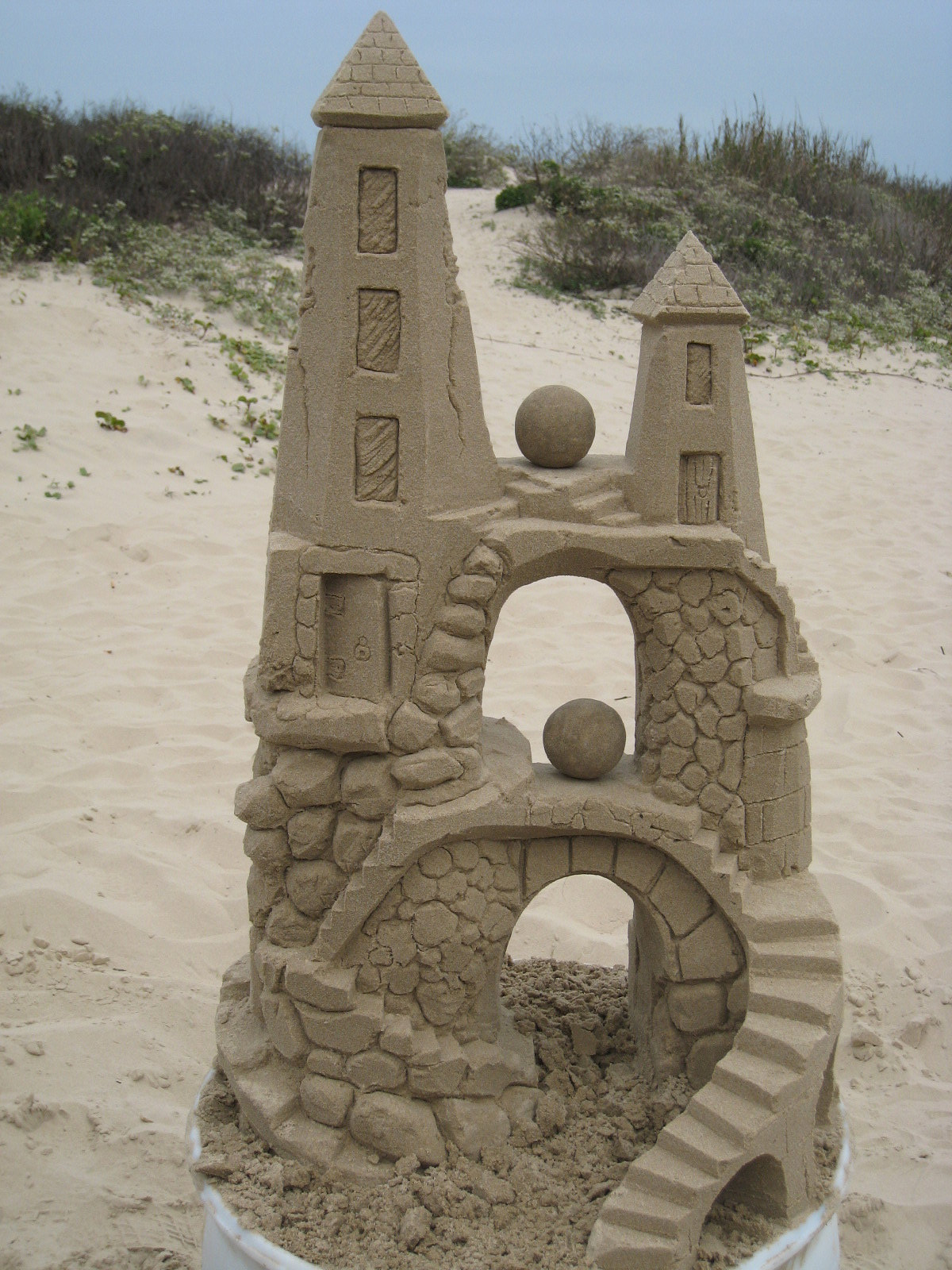 Sandcastles created on South Padre Island, Texas by Andy Hancock of